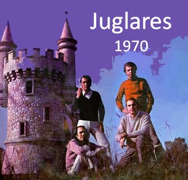 Cuarteto Zupay. Argentina. Folk group. Cover of their 3rd álbum = "Juglares". Members from left to right: Up: Aníbal López Monteiro, Eduardo Cogorno; Down: Pedro Pablo García Caffi, Eduardo Vittar Smith. Note: The typography isn't the original one.